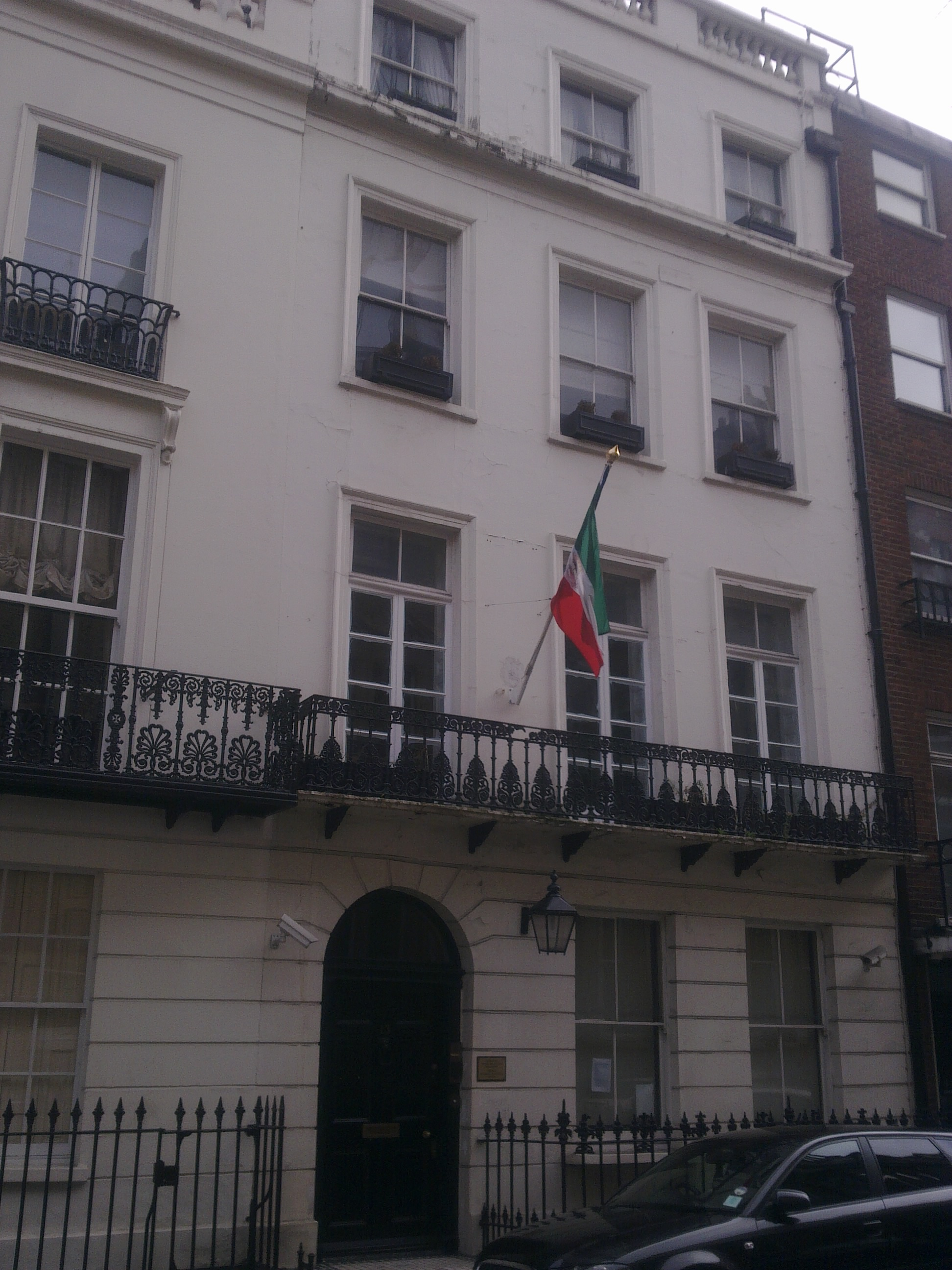 Embassy of Equatorial Guinea in London 1